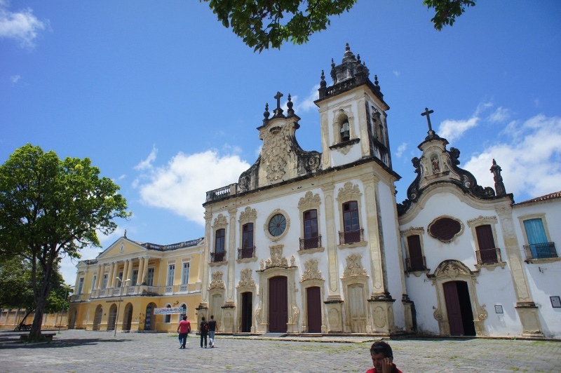 Carmo Church in João Pessoa, Paraíba, Brazil